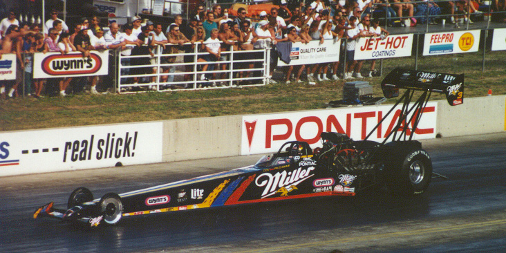 Larry DixonLarry Dixon